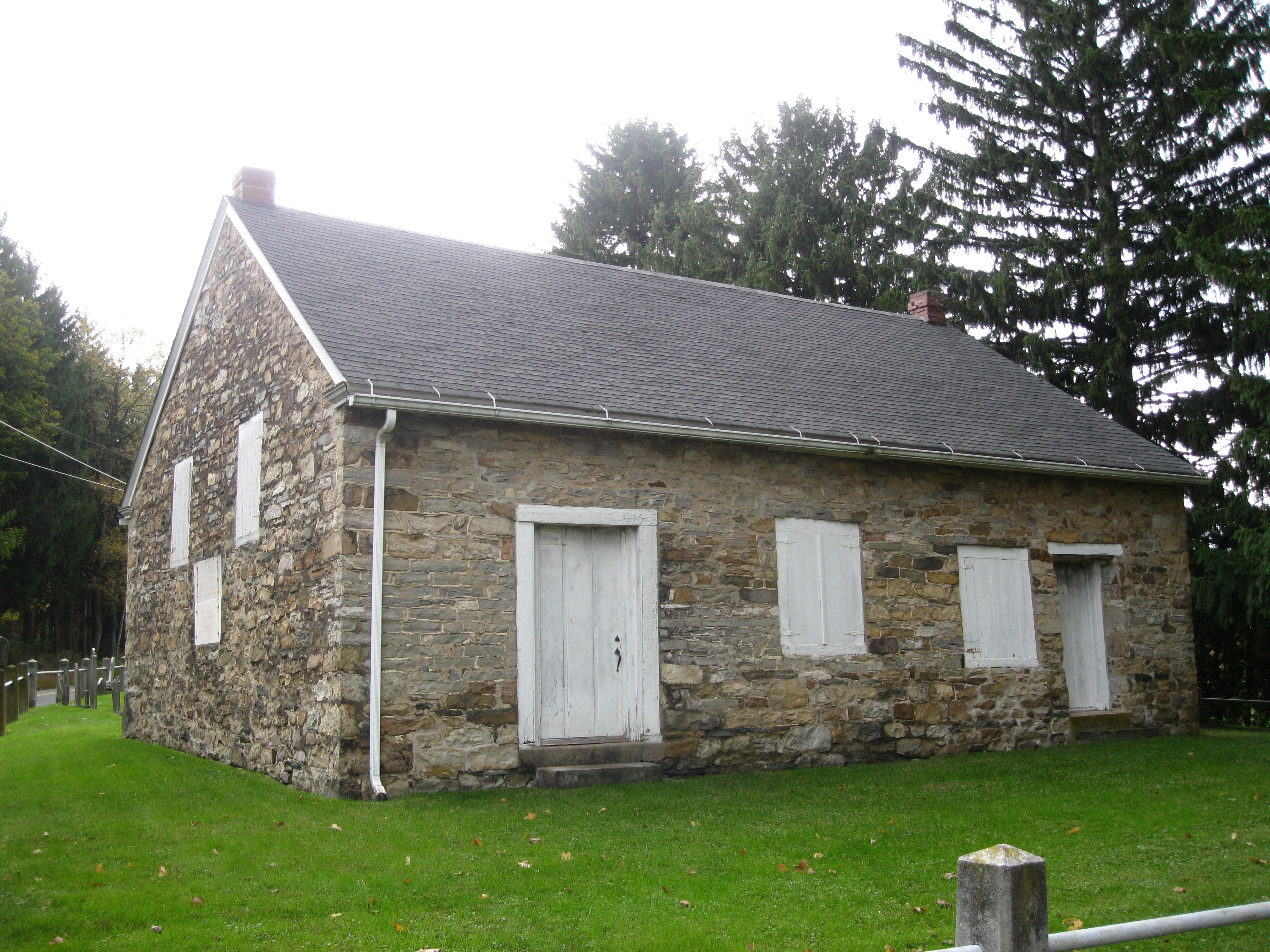 Old Stone Church from 1808 in Briar Creek Township in Columbia County, Pennsylvania, USA. This was the first Methodist church in the North Branch Susquehanna River valley.